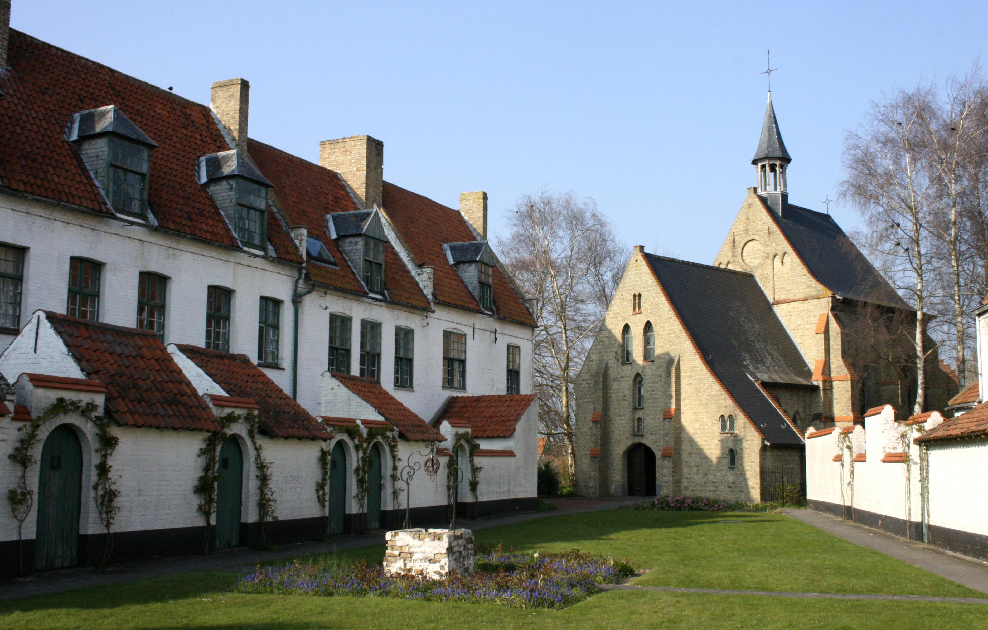 Beguinage Diksmuide. Destroyed during World War I. Rebuilt in original style in the 1920's